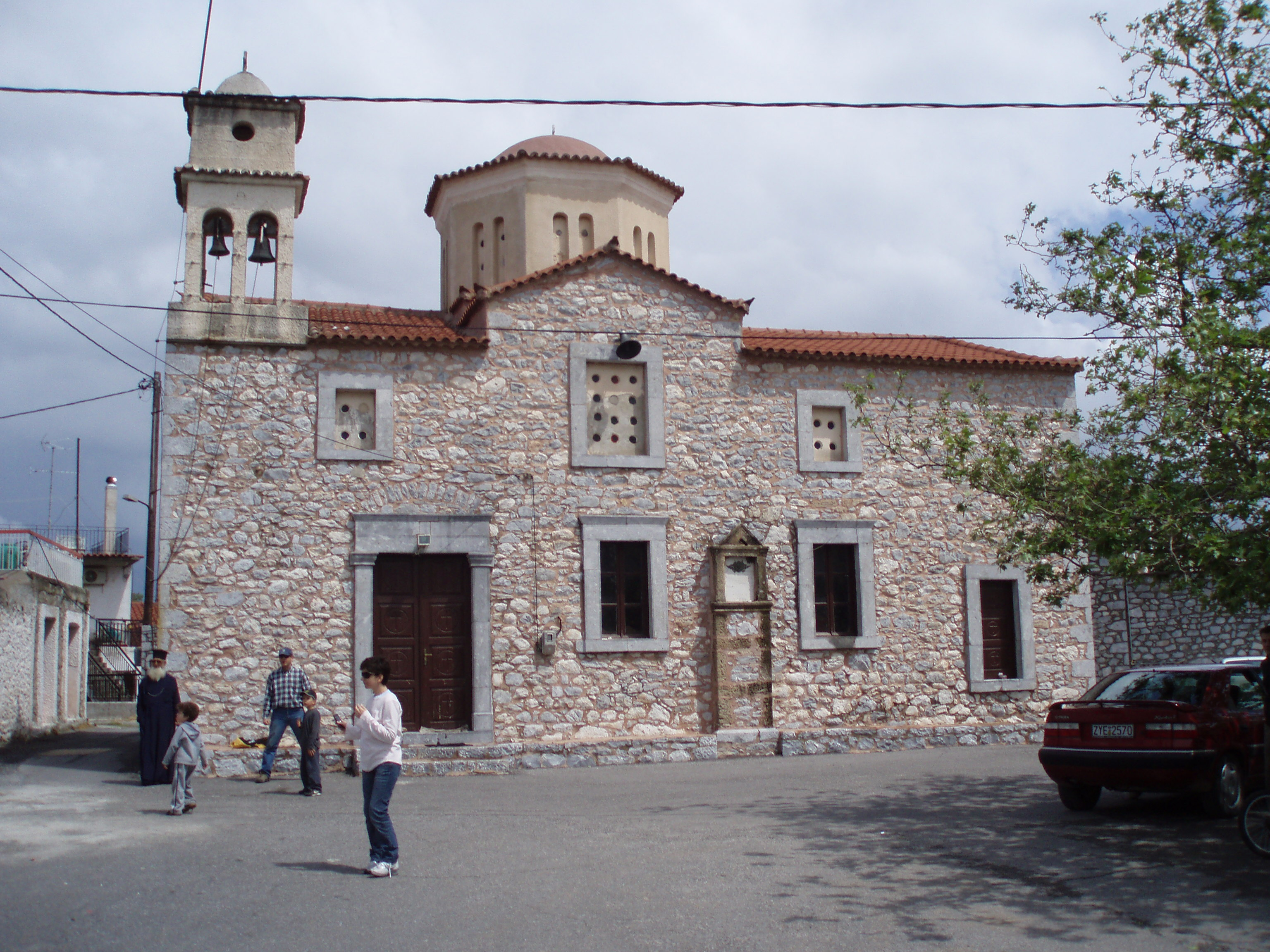 The church of Aghios Nikolaos at Drosopigi, Laconia.